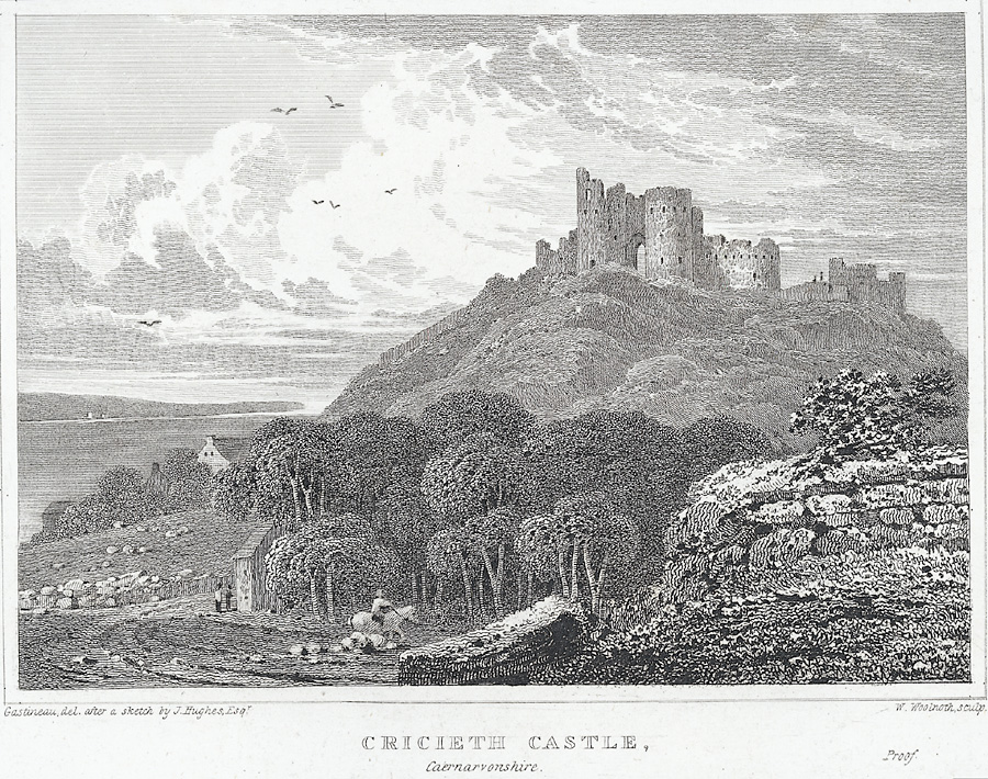 View of the ruins of Cricieth Castle.